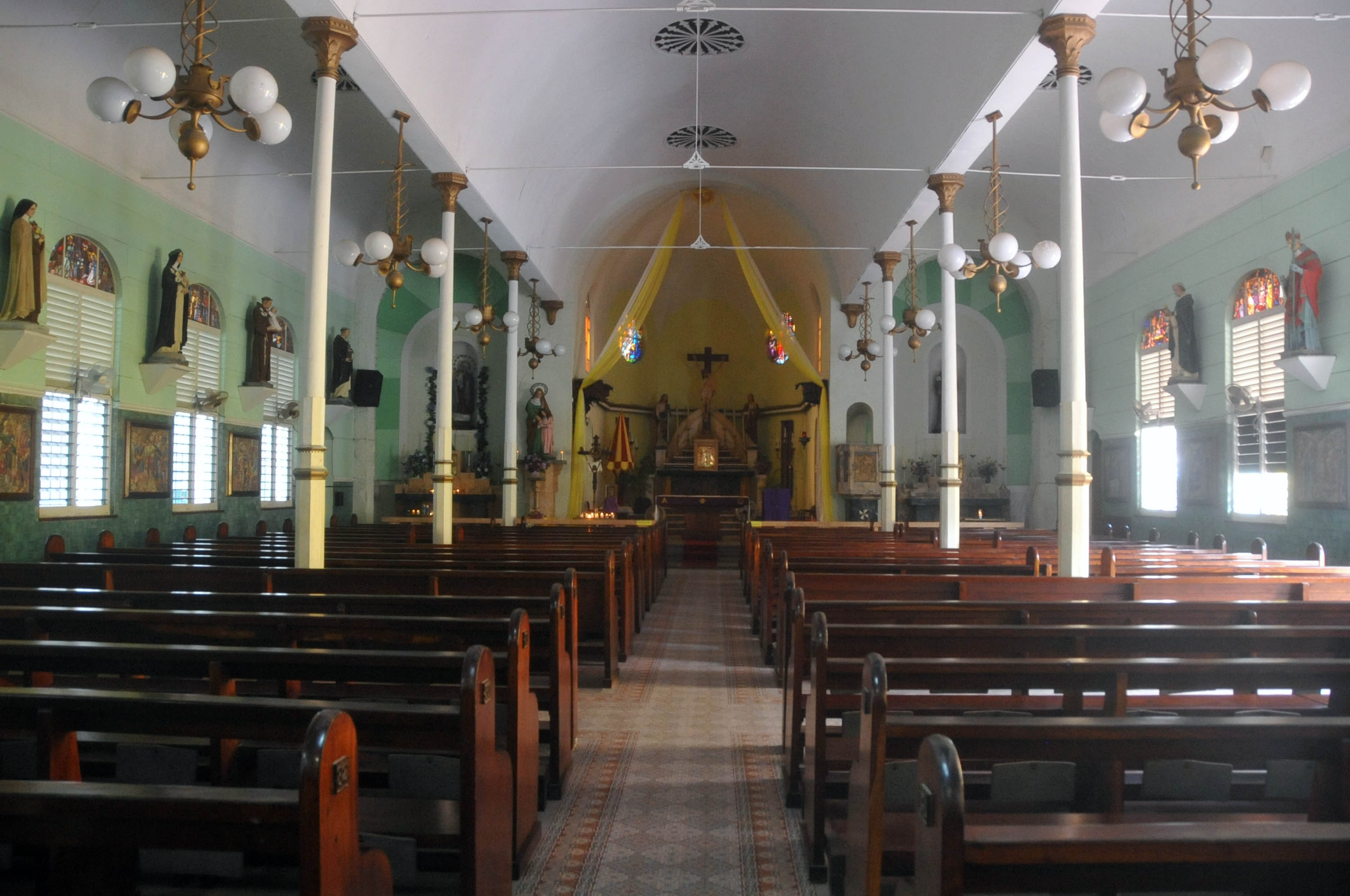 OLDEST CHURCH ON CURACAO. FOUNDED IN 1752